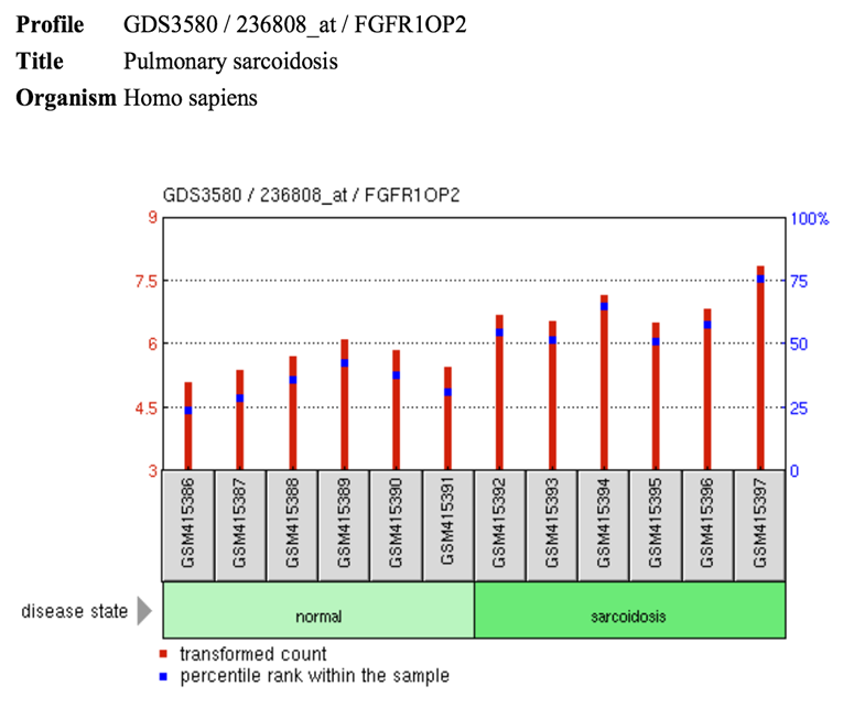 There is a slightly elevated expression level of FGFR1OP2 in pulmonary sarcoidosis.